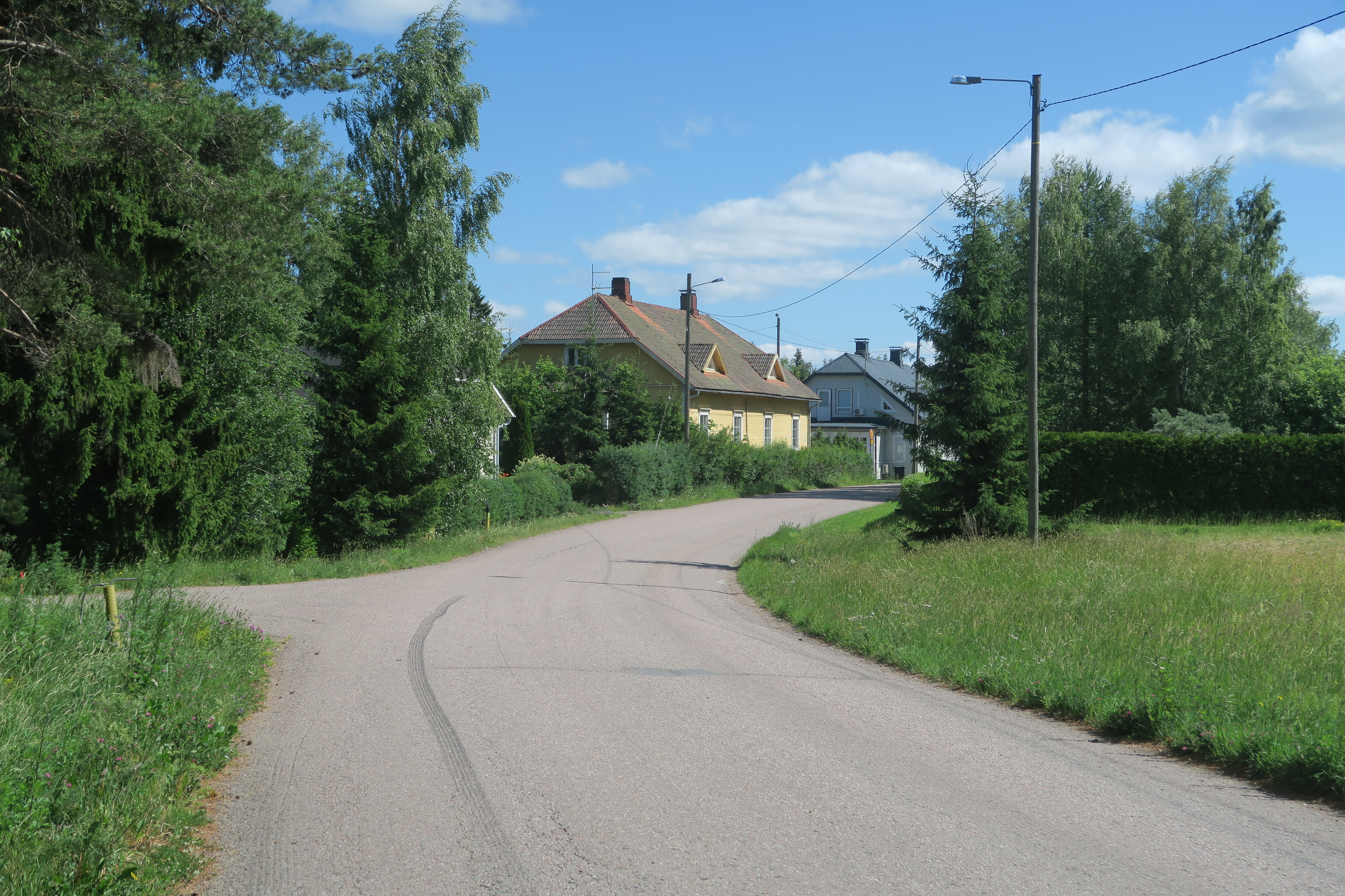 Juvantie road (local road 12609) in Loimaa, Finland.